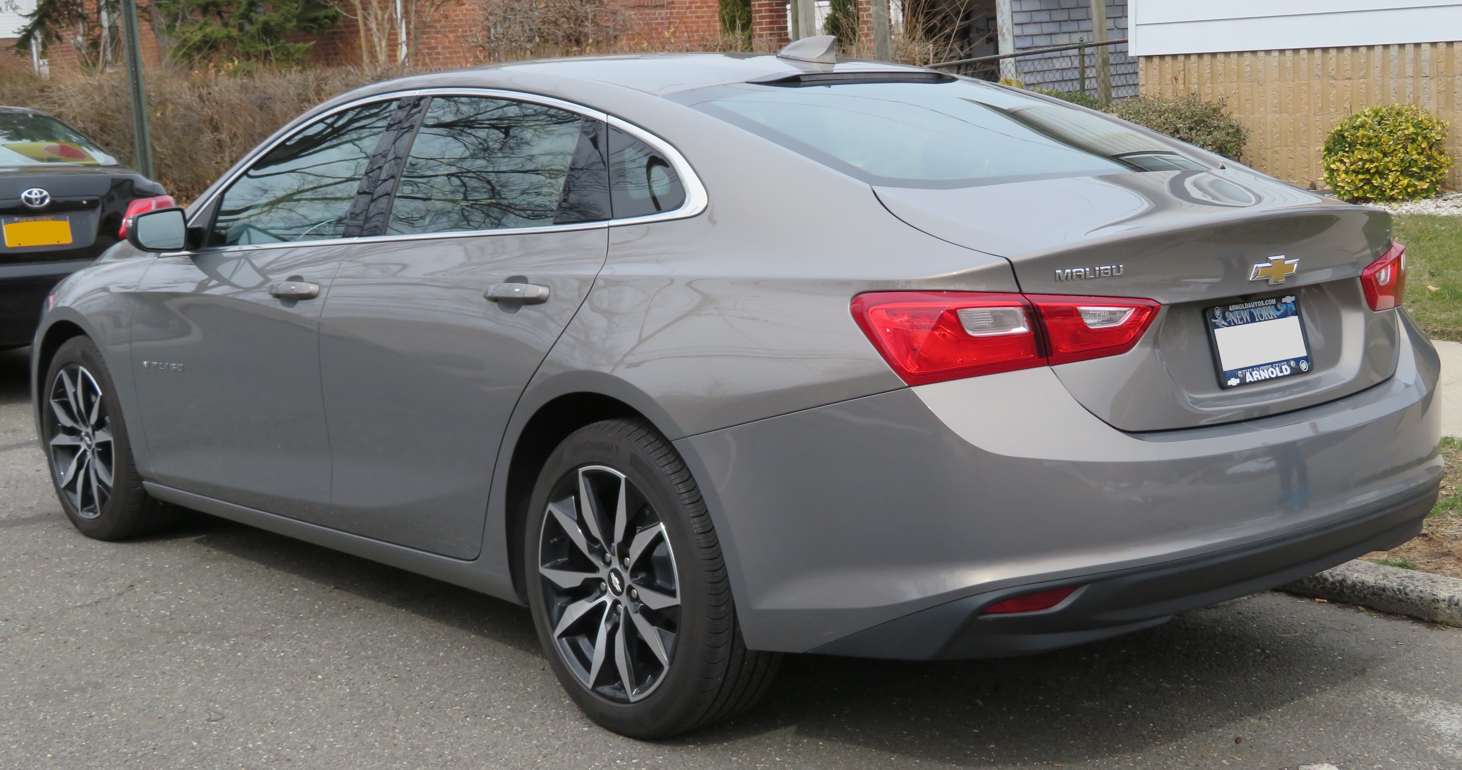 In Queens, New York